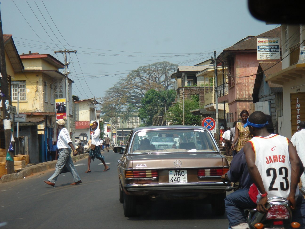 Image of the streets of Freetown, Sierra Leone, showing the famous Cotton Tree in the distance. Photo was taken by me in 2005.